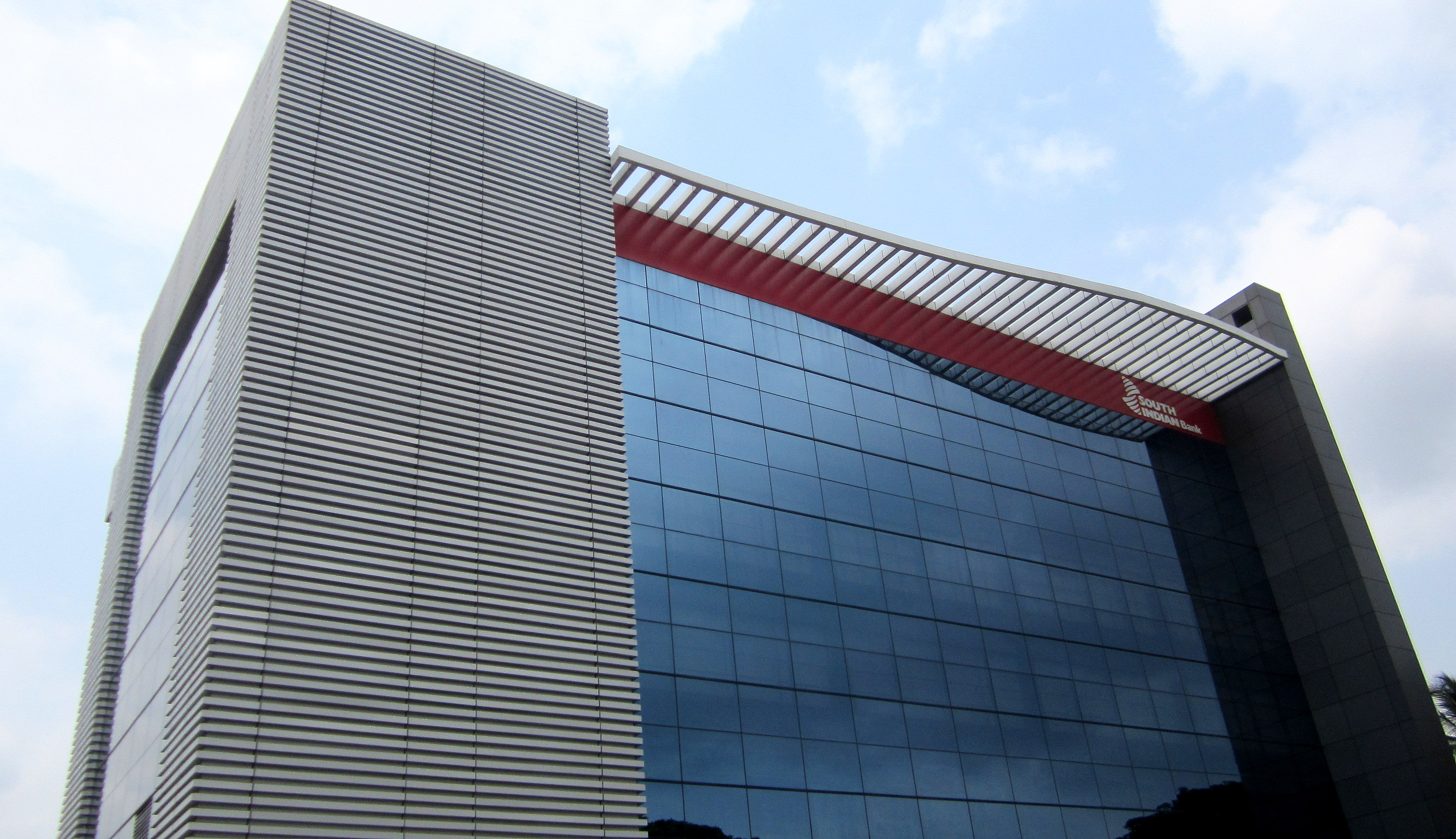 South Indian Bank head office in Thrissur city